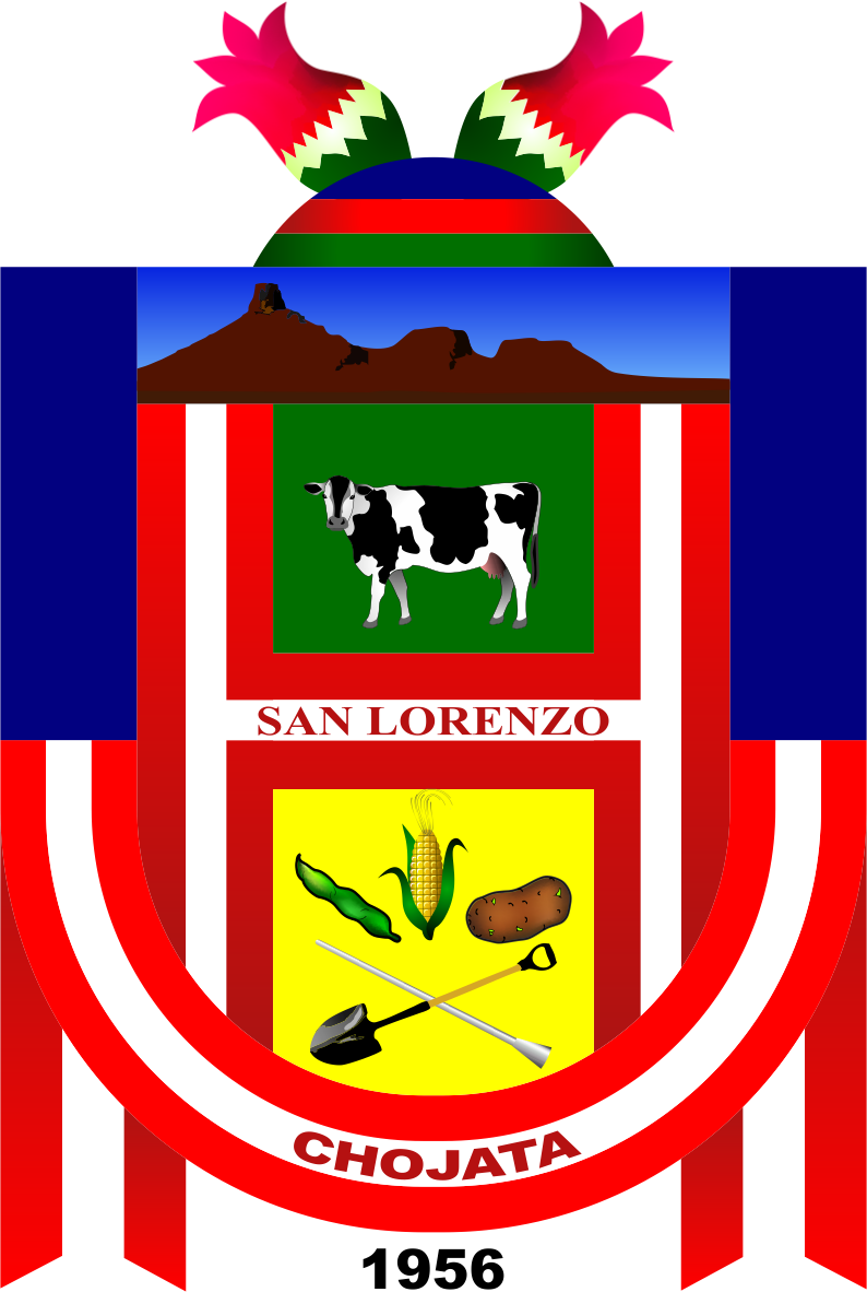 Chojata district - General Sanchez Cerro province - Region Moquegua